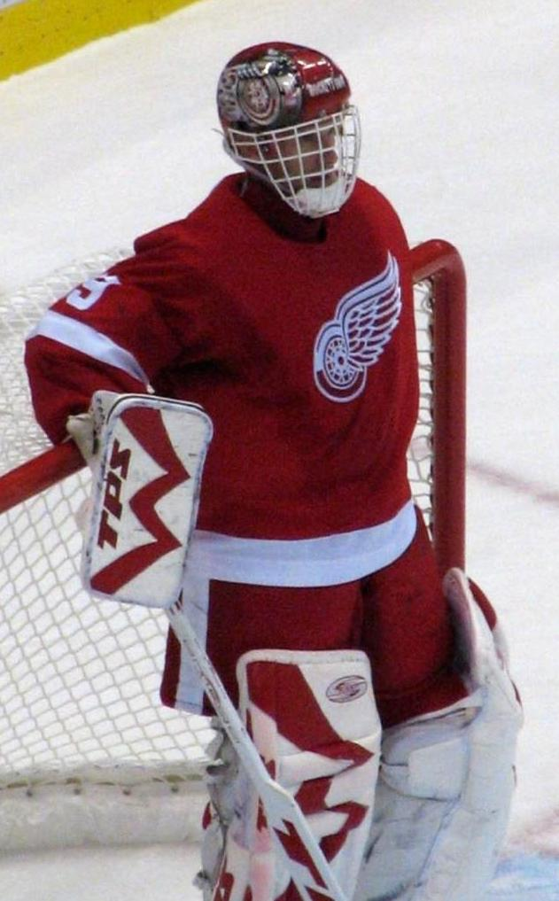 Photo of Dominik Hasek of the Detroit Red Wings